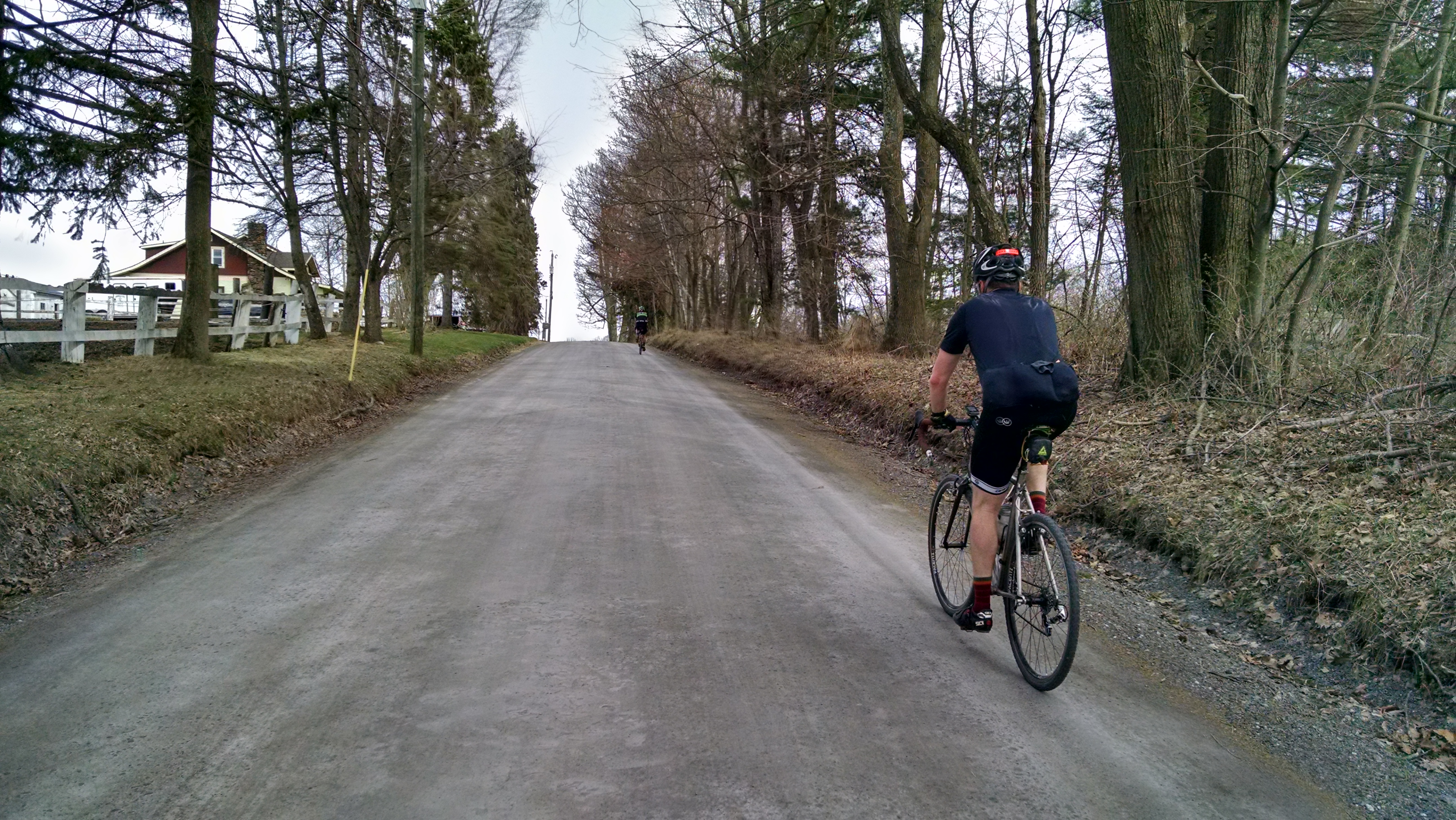 Biking in Dallas Township, Luzerne County, Pennsylvania. From Flickr